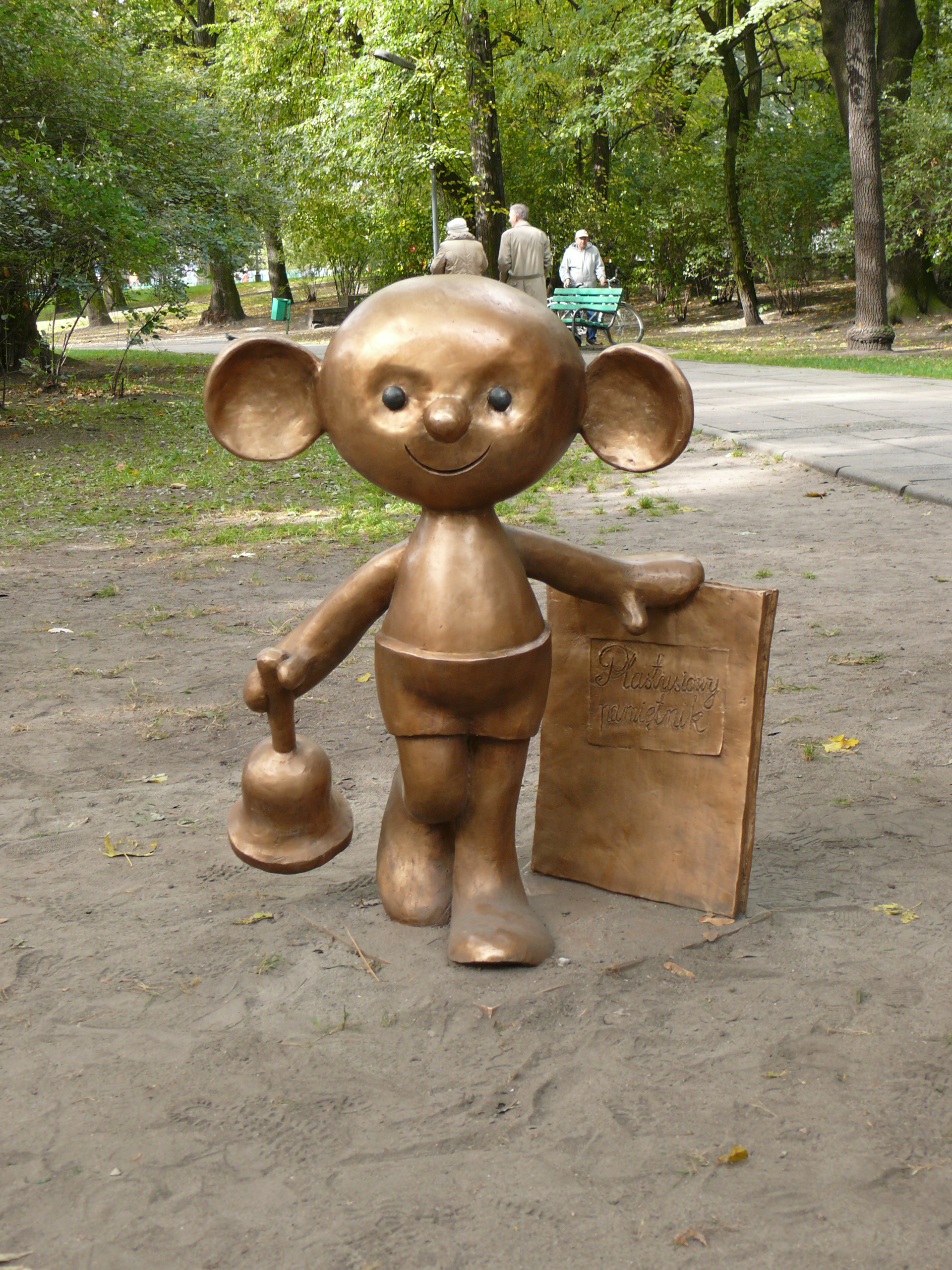 "Plastuś" sculpture (from a fairy tale "Plastuś's Diary". Sculpted by Marcin Mielczarek